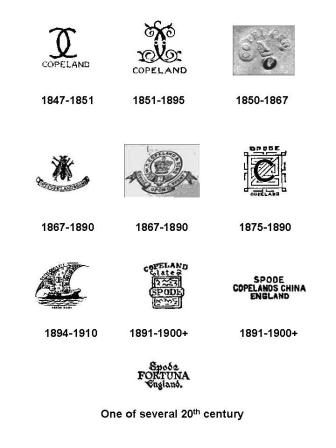 Copeland Spode marks